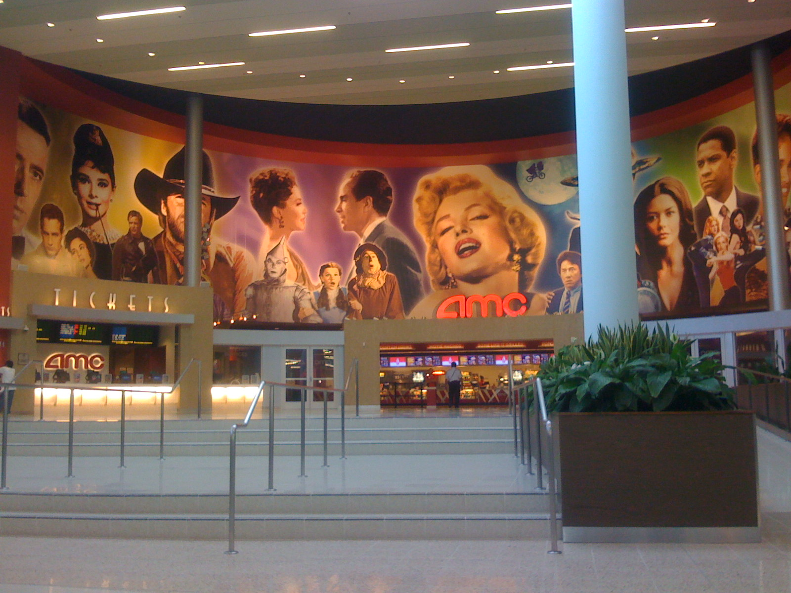 Plaza Bonita Mall in San Diego, CA